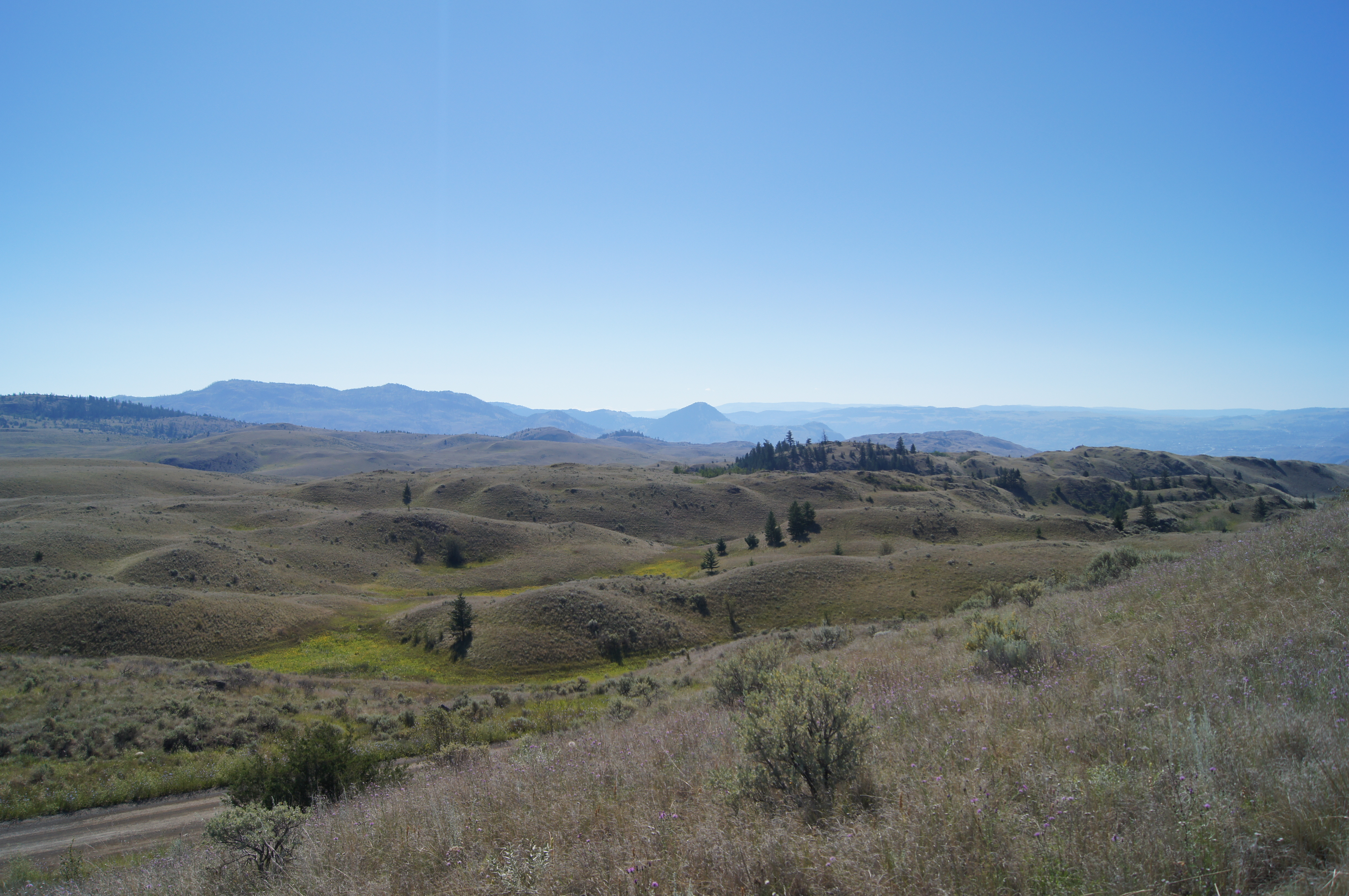 Lac du Bois Grasslands Protected Area north of Kamloops, British Columbia.